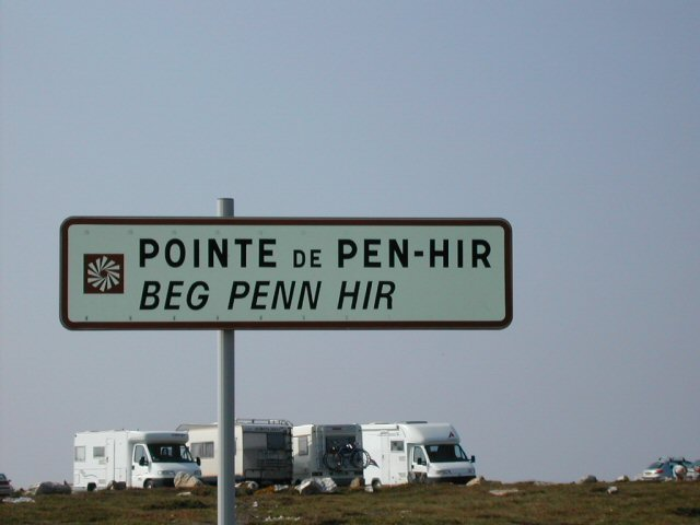 Roadsign of the cap of Penhir (presque-isle of Crozon).